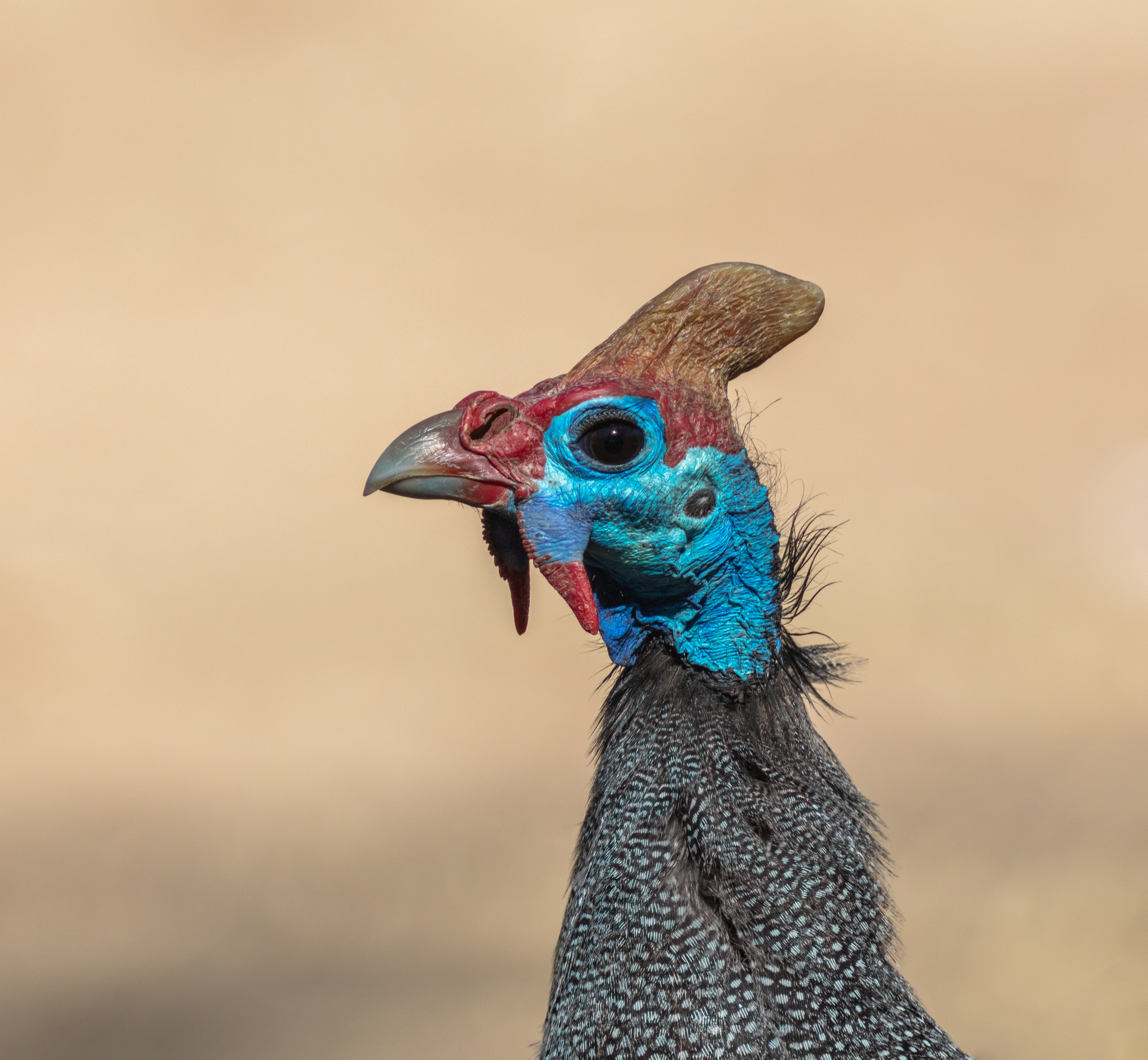 Detail of a Helmeted guineafowl (Numida meleagris), Kruger National Park, South Africa.